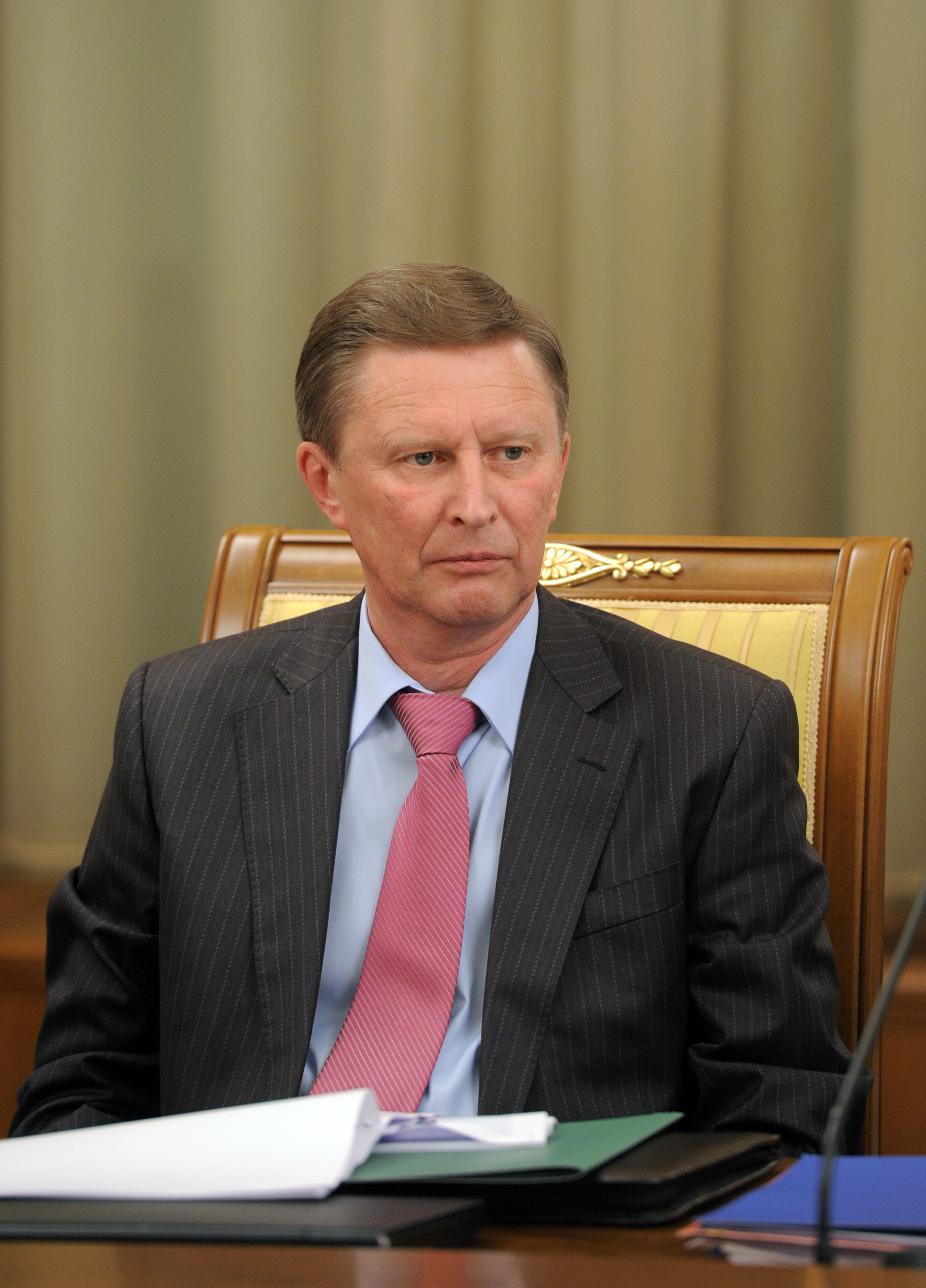 Deputy Prime Minister Sergei Ivanov at the Government meeting